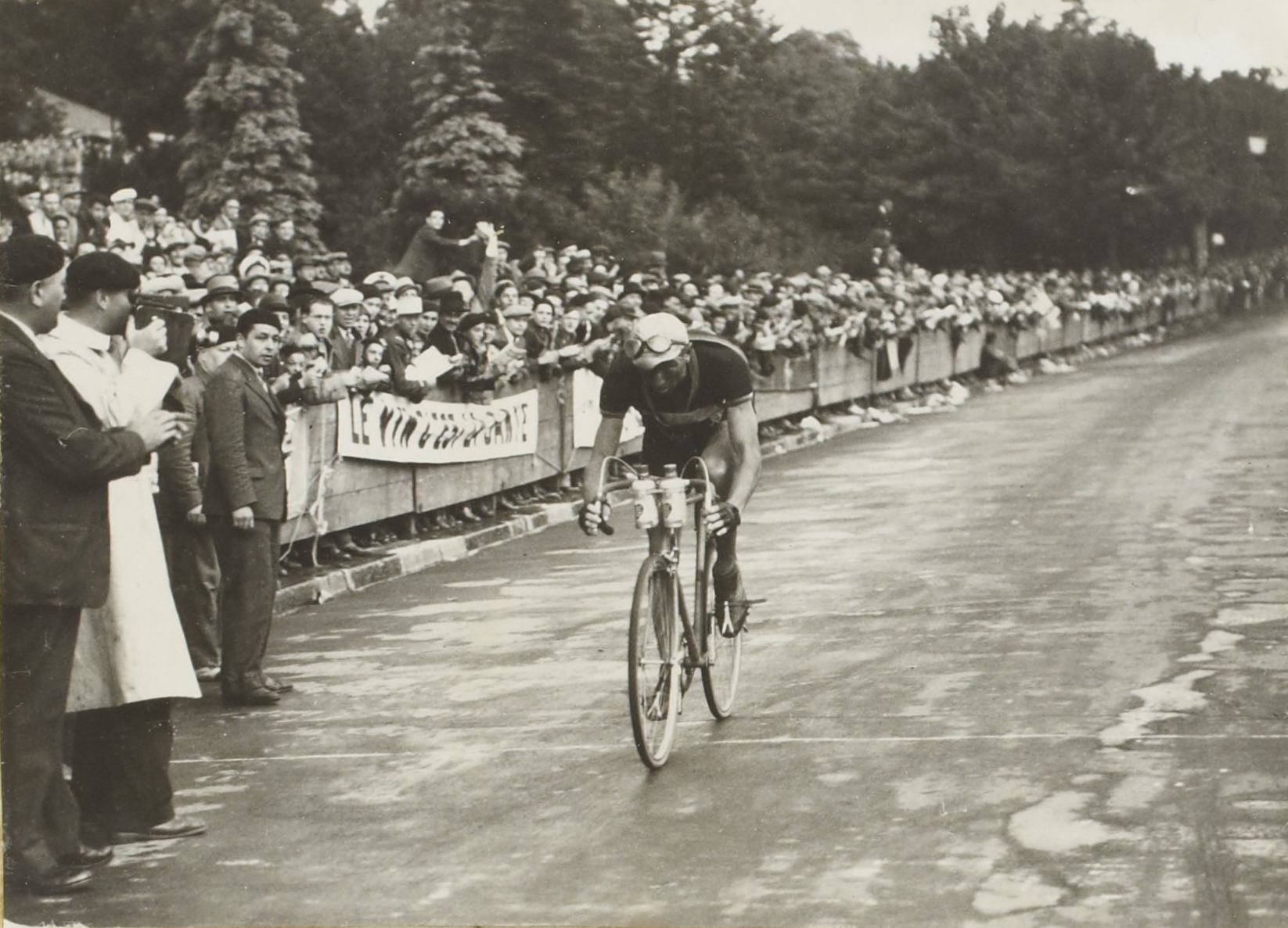 Tour de France 1936